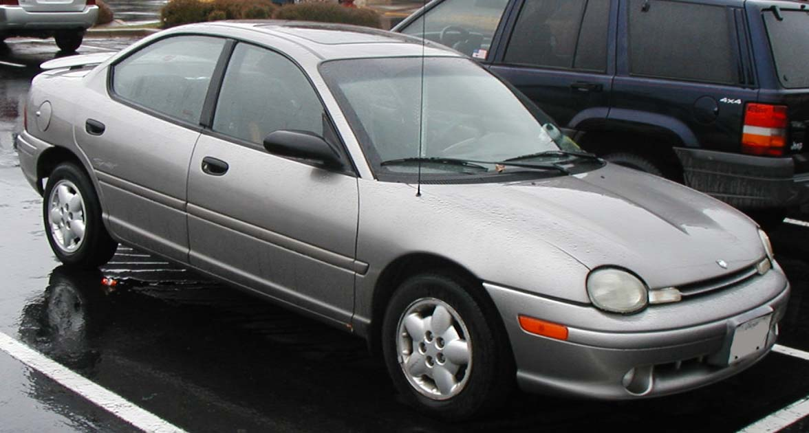 1995-1999 Dodge Neon photographed in USA.